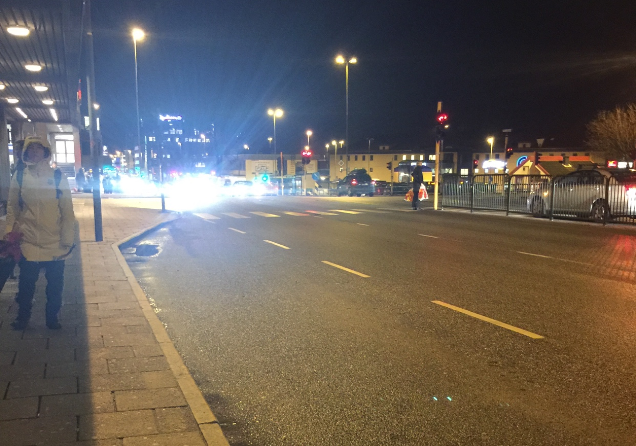 Evening on Vestre Strandgate